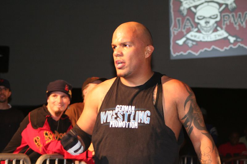 Professional wrestler Homicide at a Jersey All Pro Wrestling show on November 15, 2008.